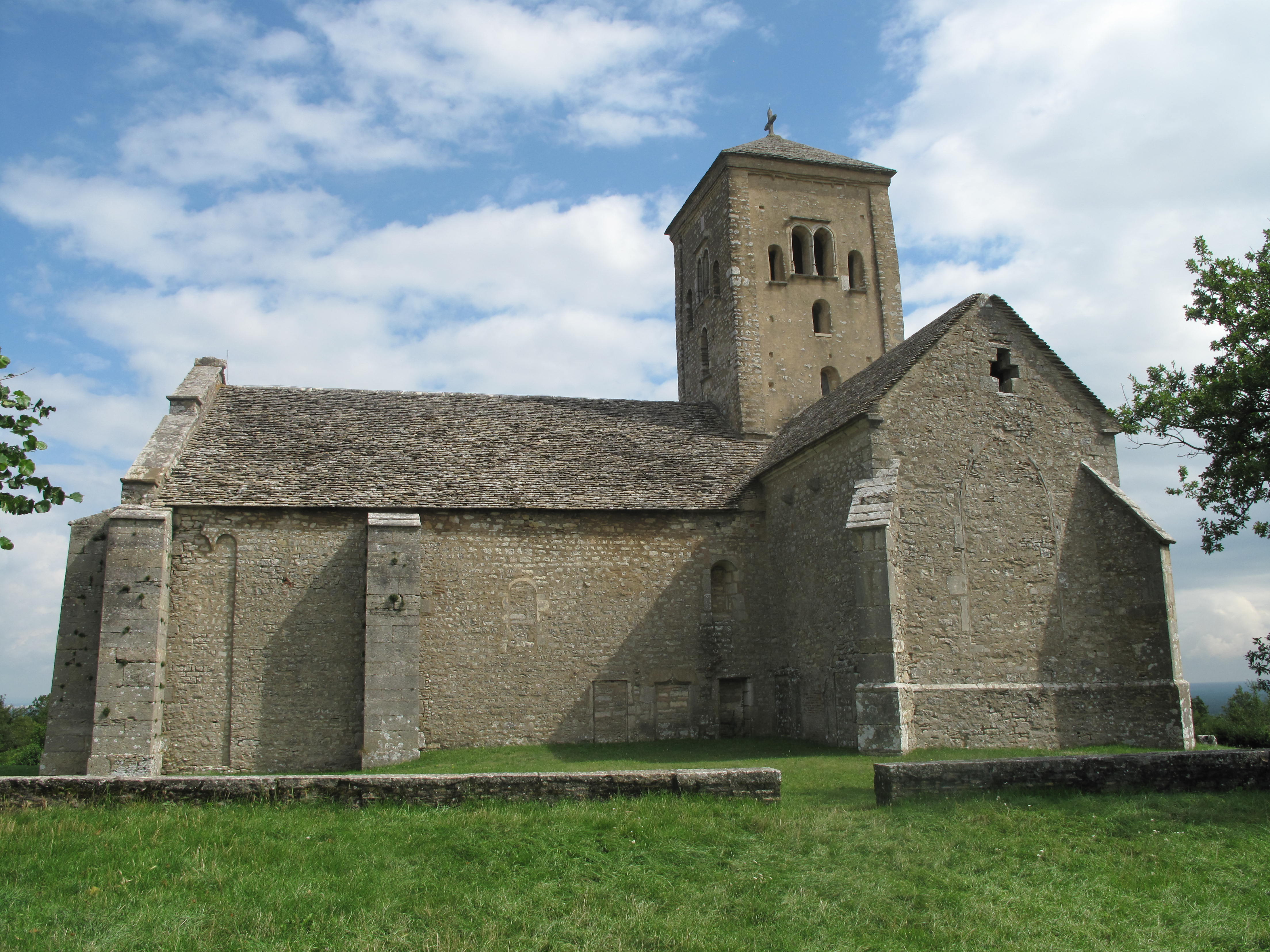 The church of Saint-Martin of Laives, Saône-et-Loire, France